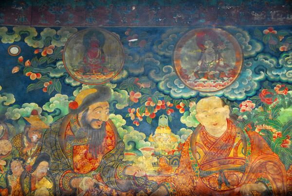 Gushri Khan with the 5th Dalai Lama. Fresco in Jokhang.